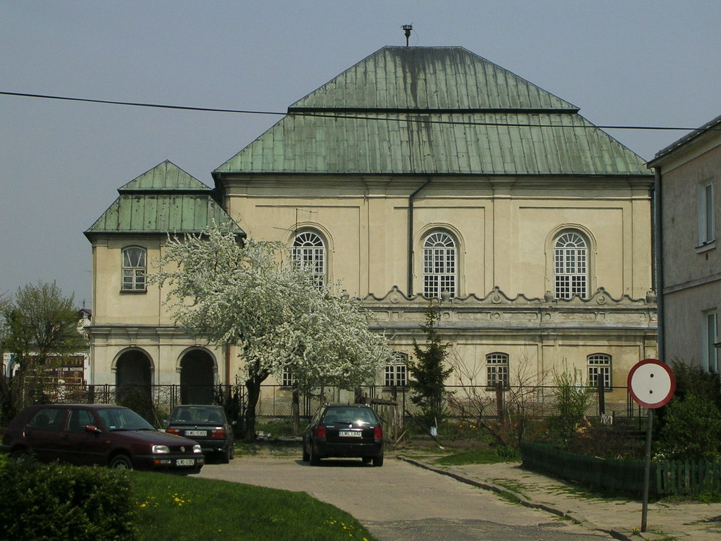 The Great Synagogue in Włodawa, Poland.